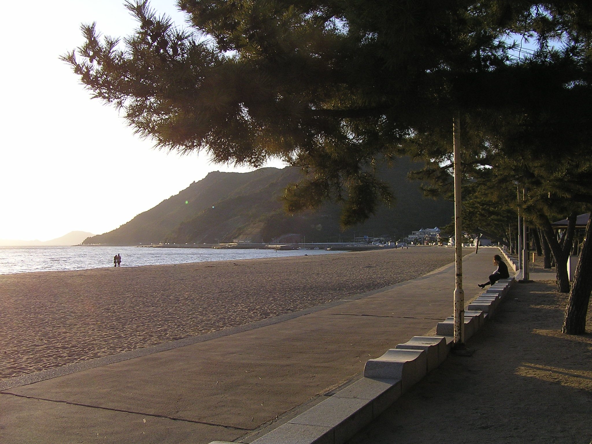 Shibukawa coast of early spring